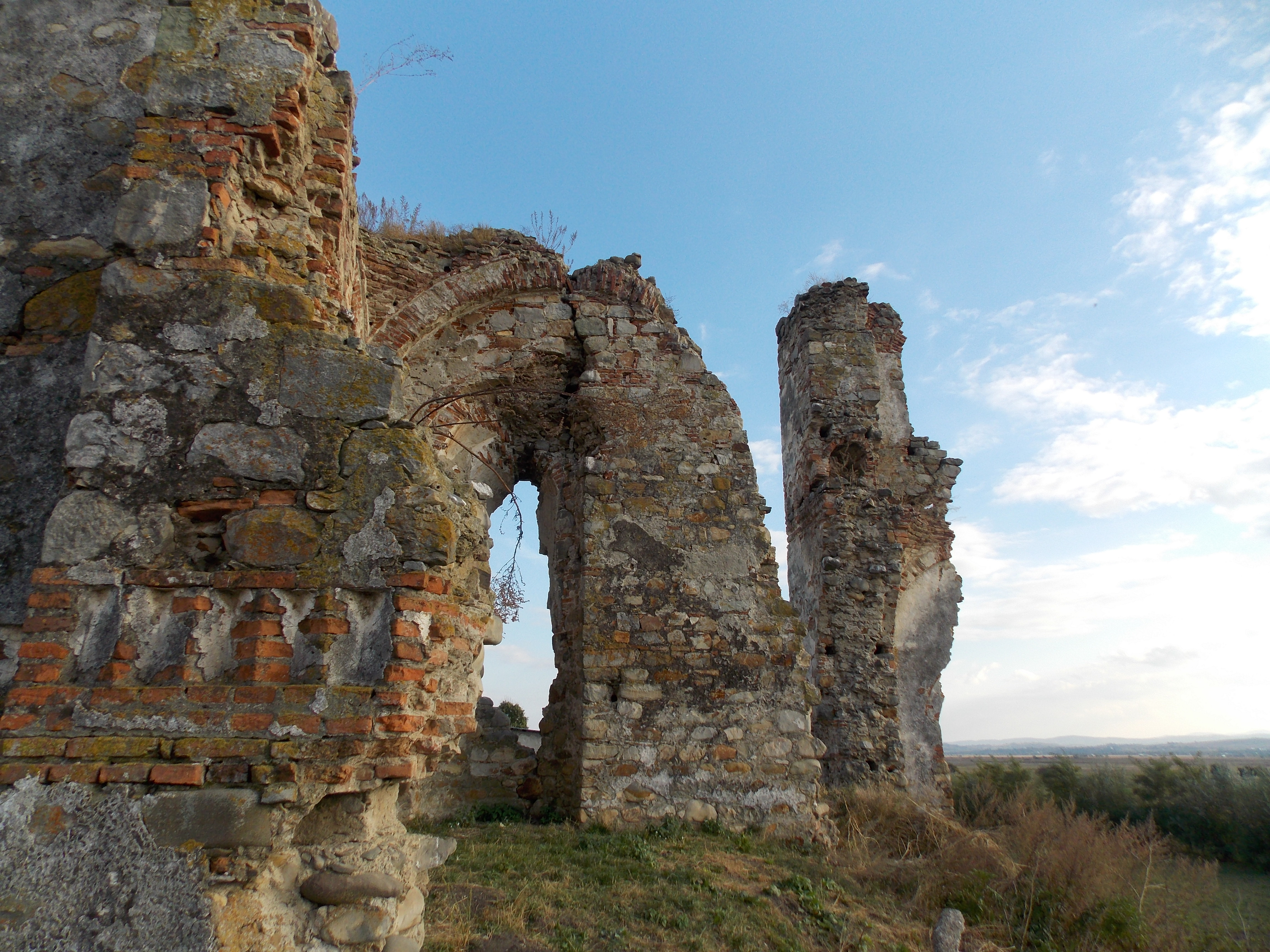 The ruins of the Bociuleşti Monastery (1629); Podoleni village, Neamț County, Romania)